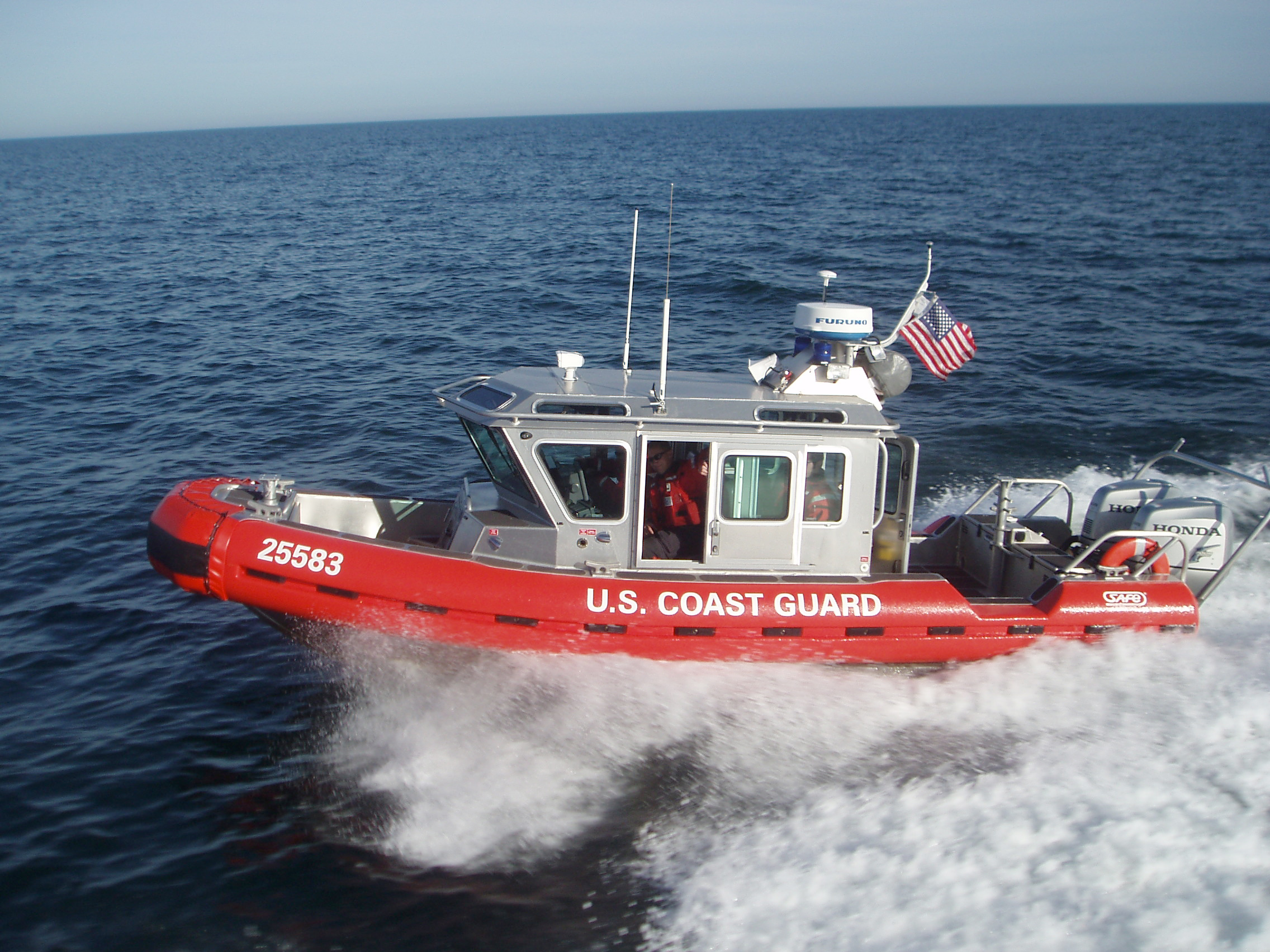 USCG 25' RB-S 25583 assigned to USCG Station Oregon Inlet, North Carolina.